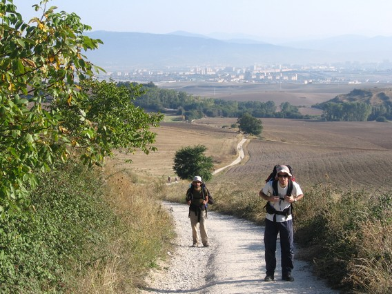 camino de santiago